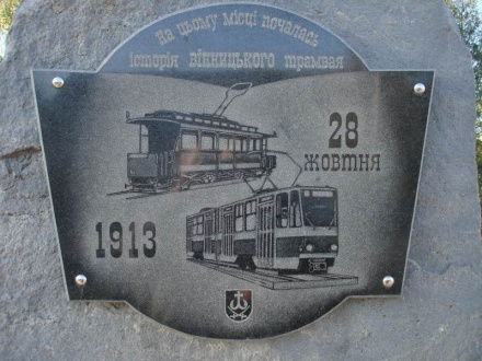 Stone, erected in honor of Vinnitsa Tram